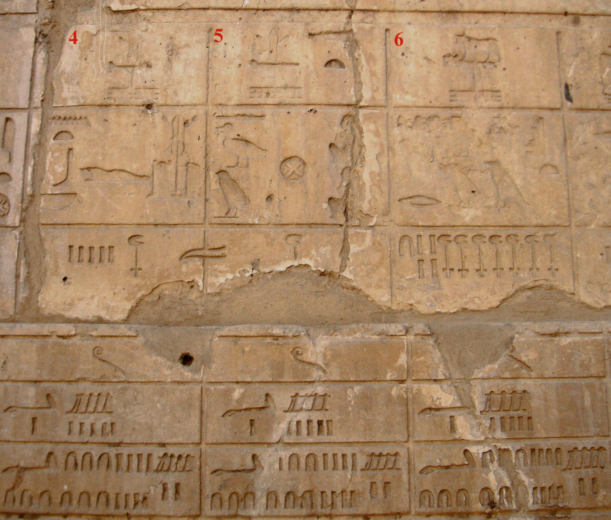 Nome 4 to 6 of Lower Egypt (list of Sesostris I.)